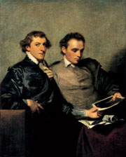 Mr George Huddesford _and_John Bampfylde in a painting examining a portrait by Reynolds of their former master in Winchester College